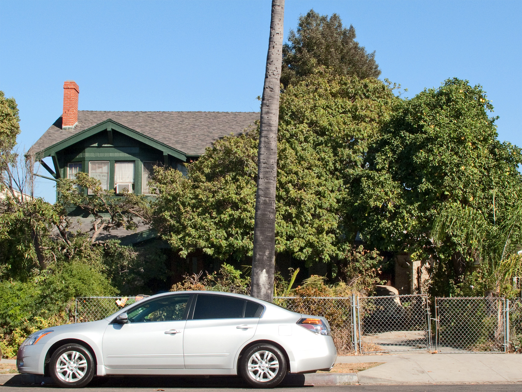 Julius Bierlich Residence — 1818 S. Gramercy Place, in the Harvard Heights neighborhood of Central Los Angeles, California. The 1914 Craftsman style house is a Los Angeles Historic-Cultural Monument.